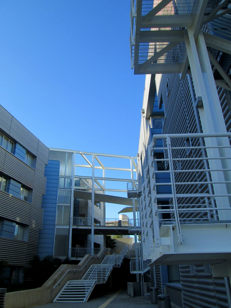 University of Cyprus Deparment Republic of Cyprus